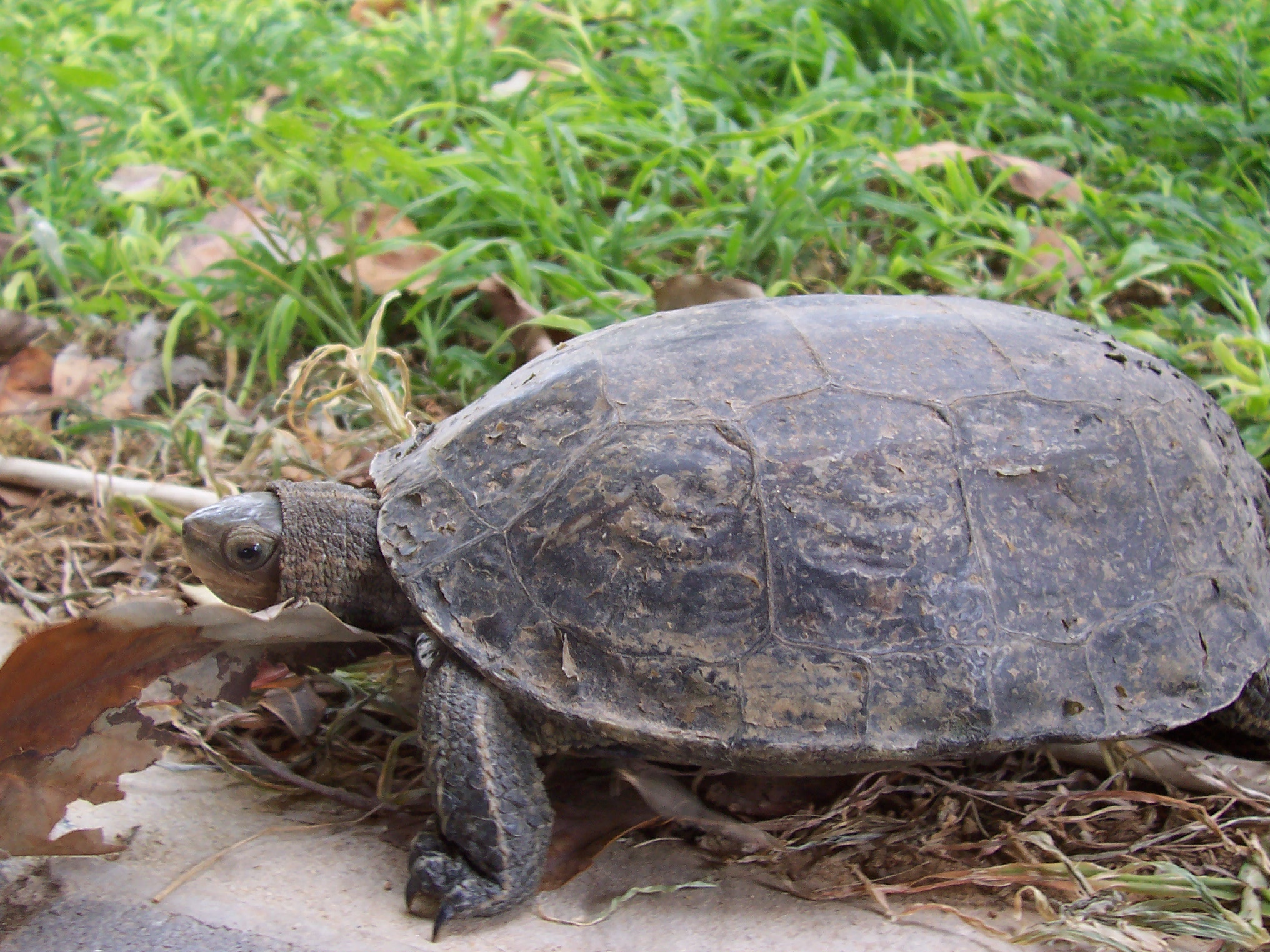 Western Caspian pond turtle